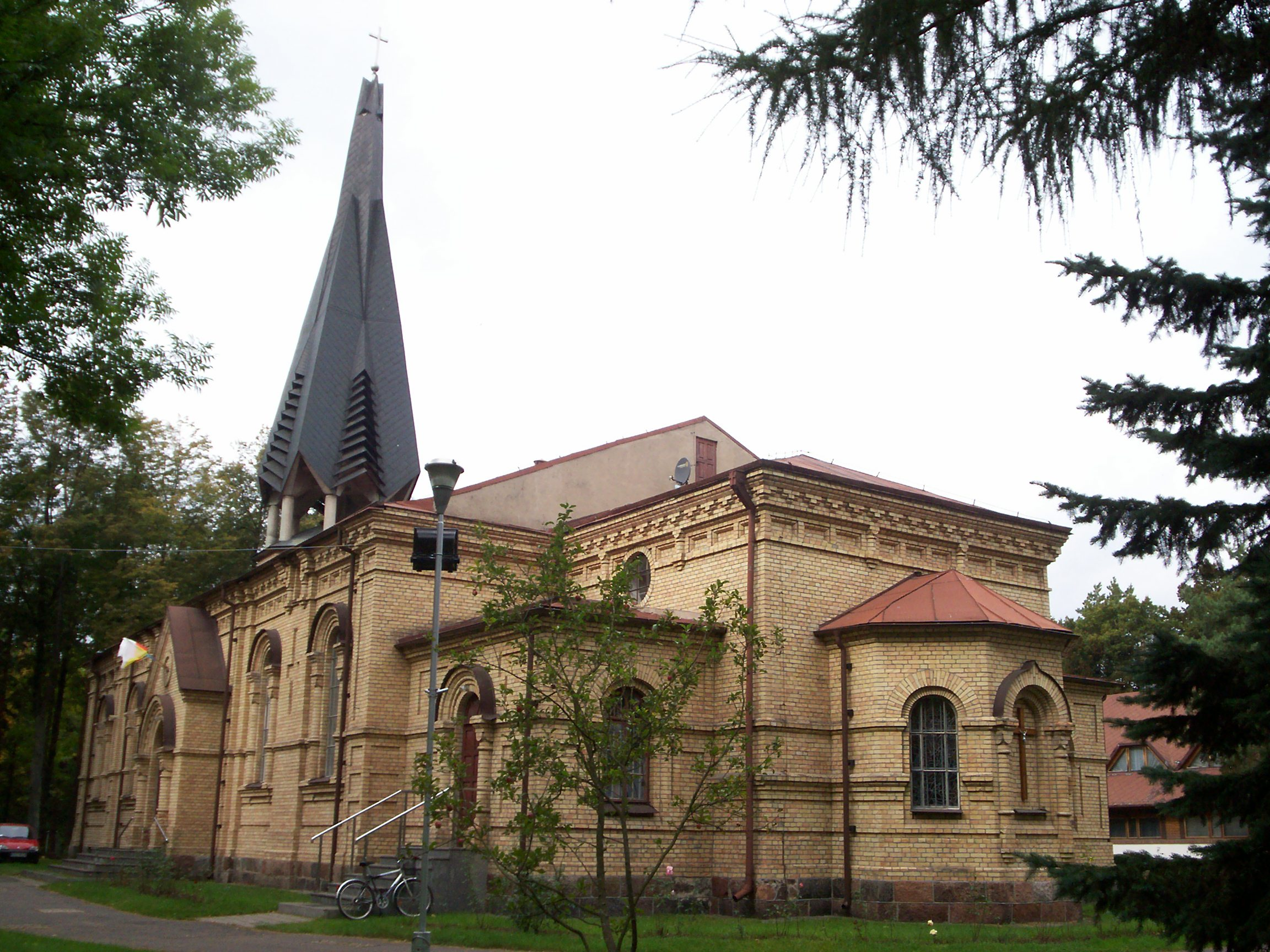 Church of St. Mary in Augustów.